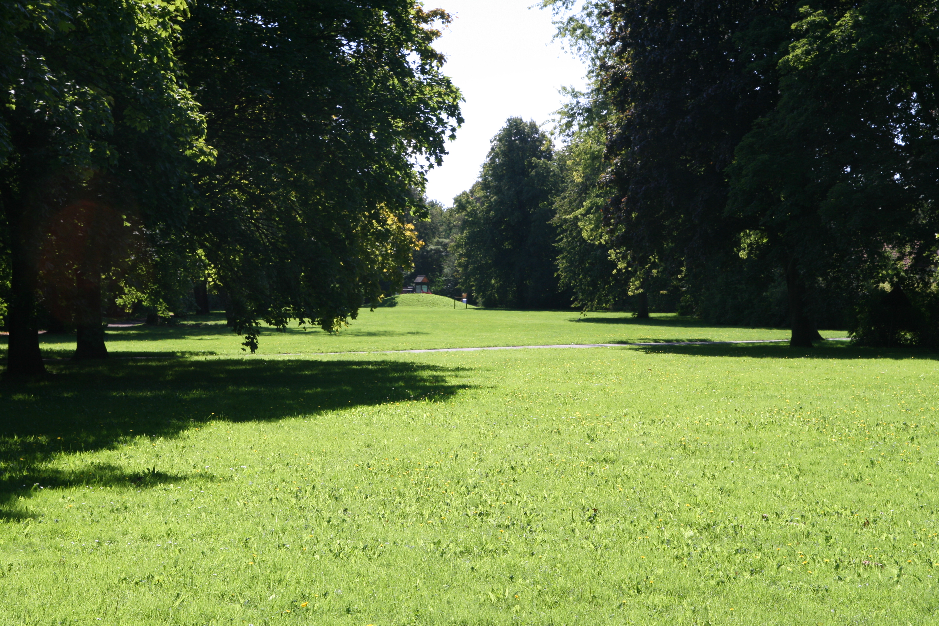 South-looking view of the north-south corridor of Patrik Rosengrens Park in Lund, Sweden.